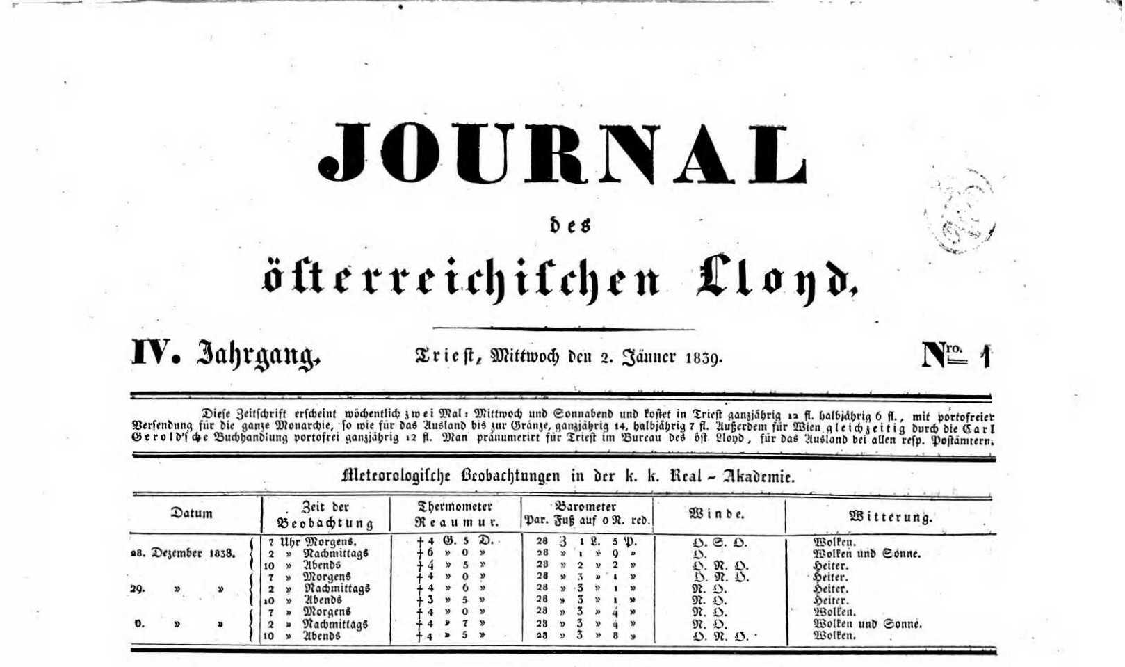 Oesterr. Journal, newspaper head from 02/01/1839